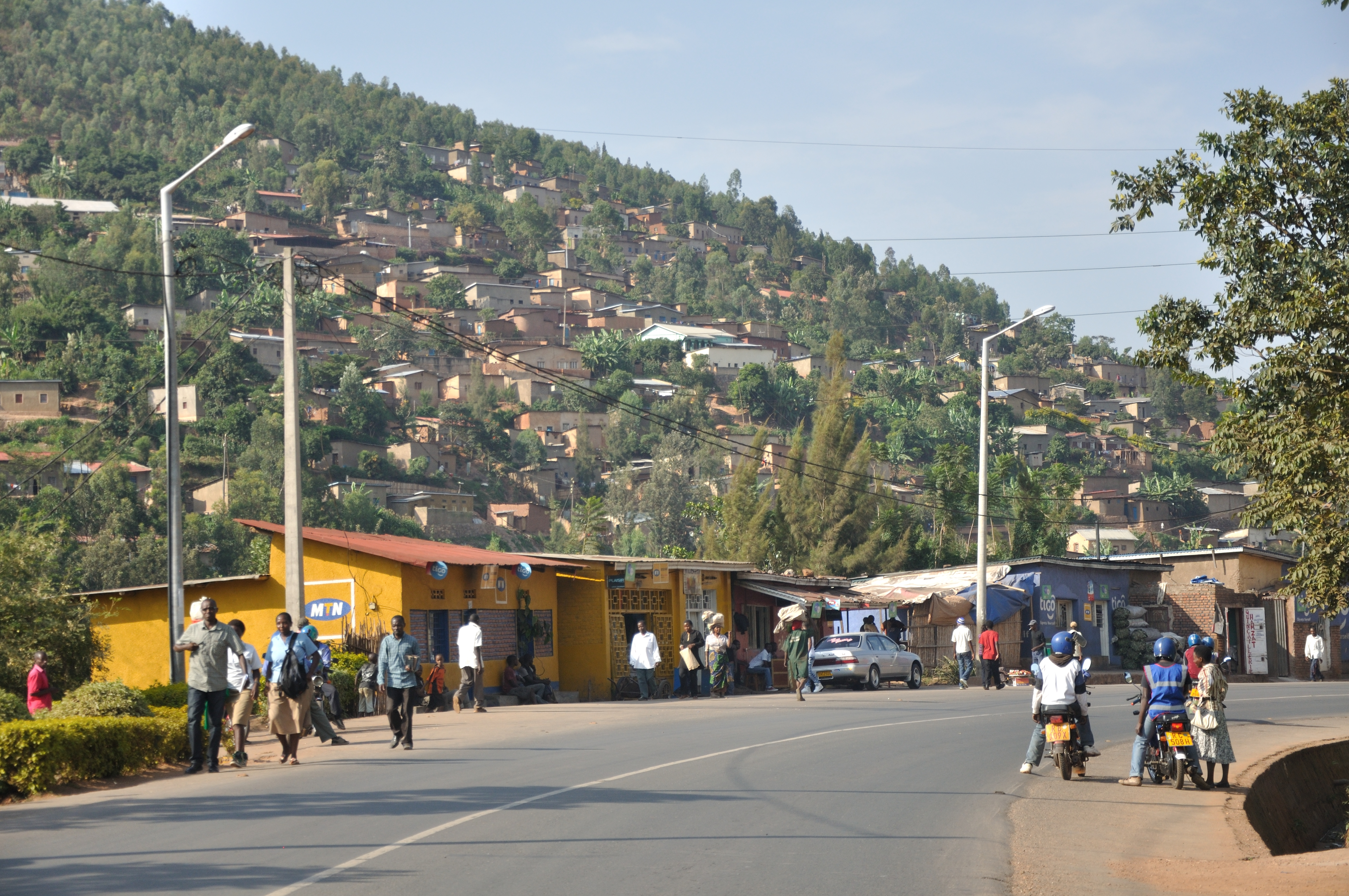 Rwanda, road side impressions of Kigali